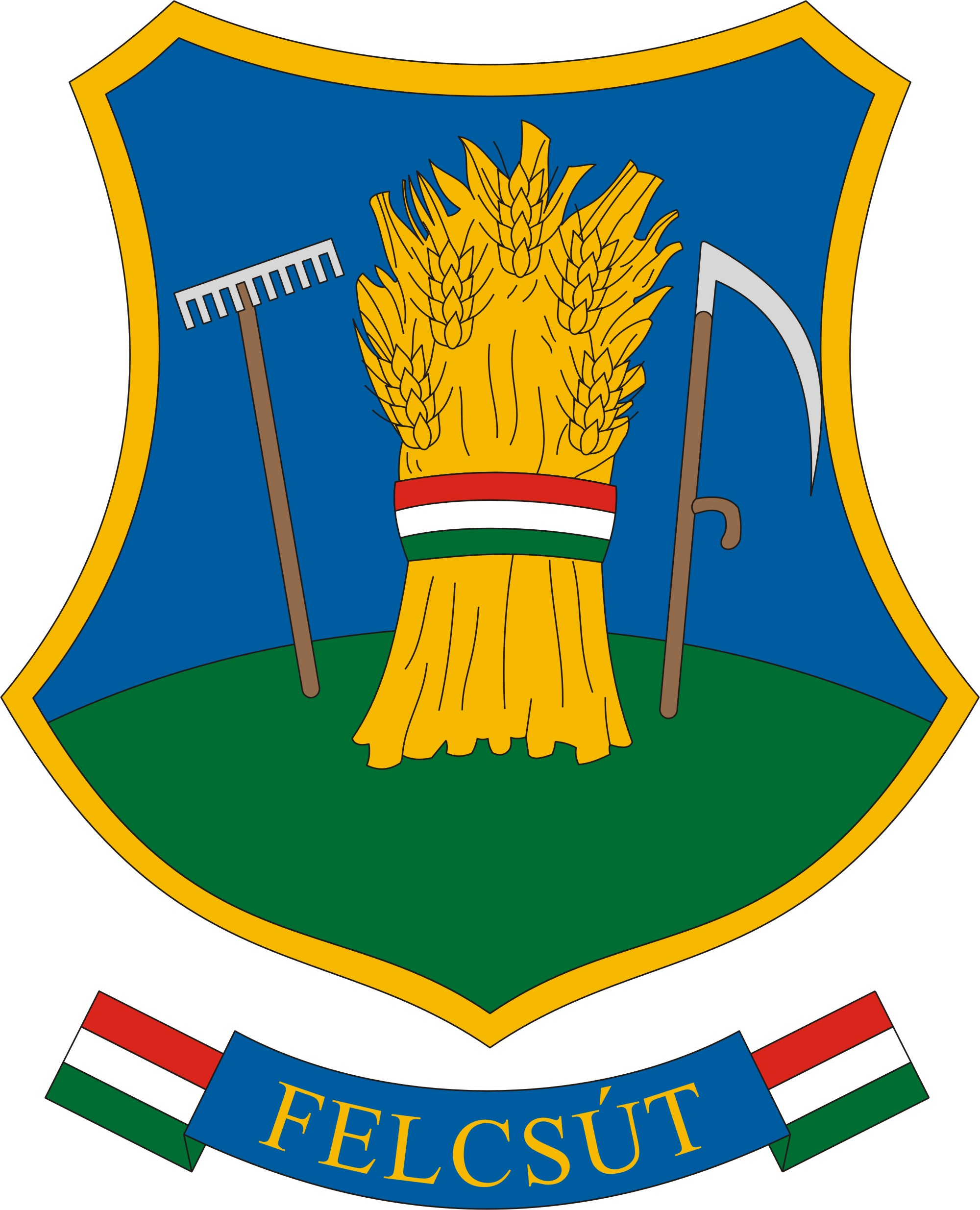 Coat of arms of Felcsút, Hungary